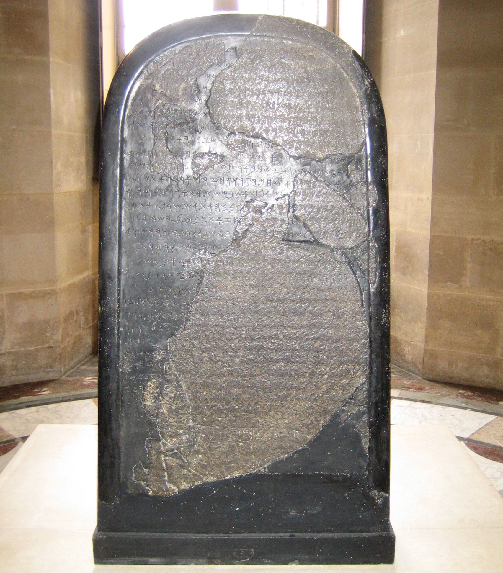 aka. the Moabite Stone (2007-05-19T14-10-19.jpg)